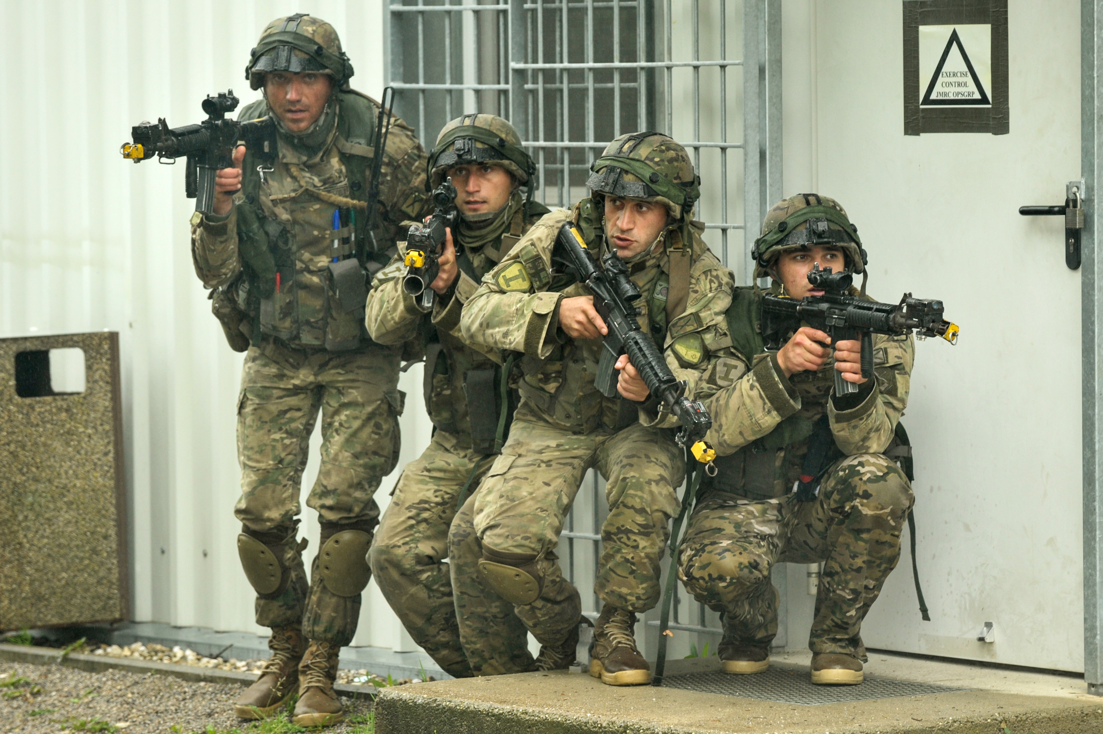 Georgian soldiers conduct building clearing operations during exercise Combined Resolve II at the Joint Multinational Readiness Center in Hohenfels, Germany, May 29, 2014. Combined Resolve II is a U.S. Army Europe-directed multinational exercise at the Grafenwoehr and Hohenfels Training Areas, including more than 4,000 participants from 15 allied and partner countries. The exercise features the European Rotational Force, a combined arms battalion of the 1st Brigade Combat Team, 1st Cavalry Division, the U.S. Army’s Regionally-Aligned rotational brigade combat team, that supports the U.S. European Command for training and contingency missions. (U.S. Army photo by Visual Information Specialist Markus Rauchenberger/released)